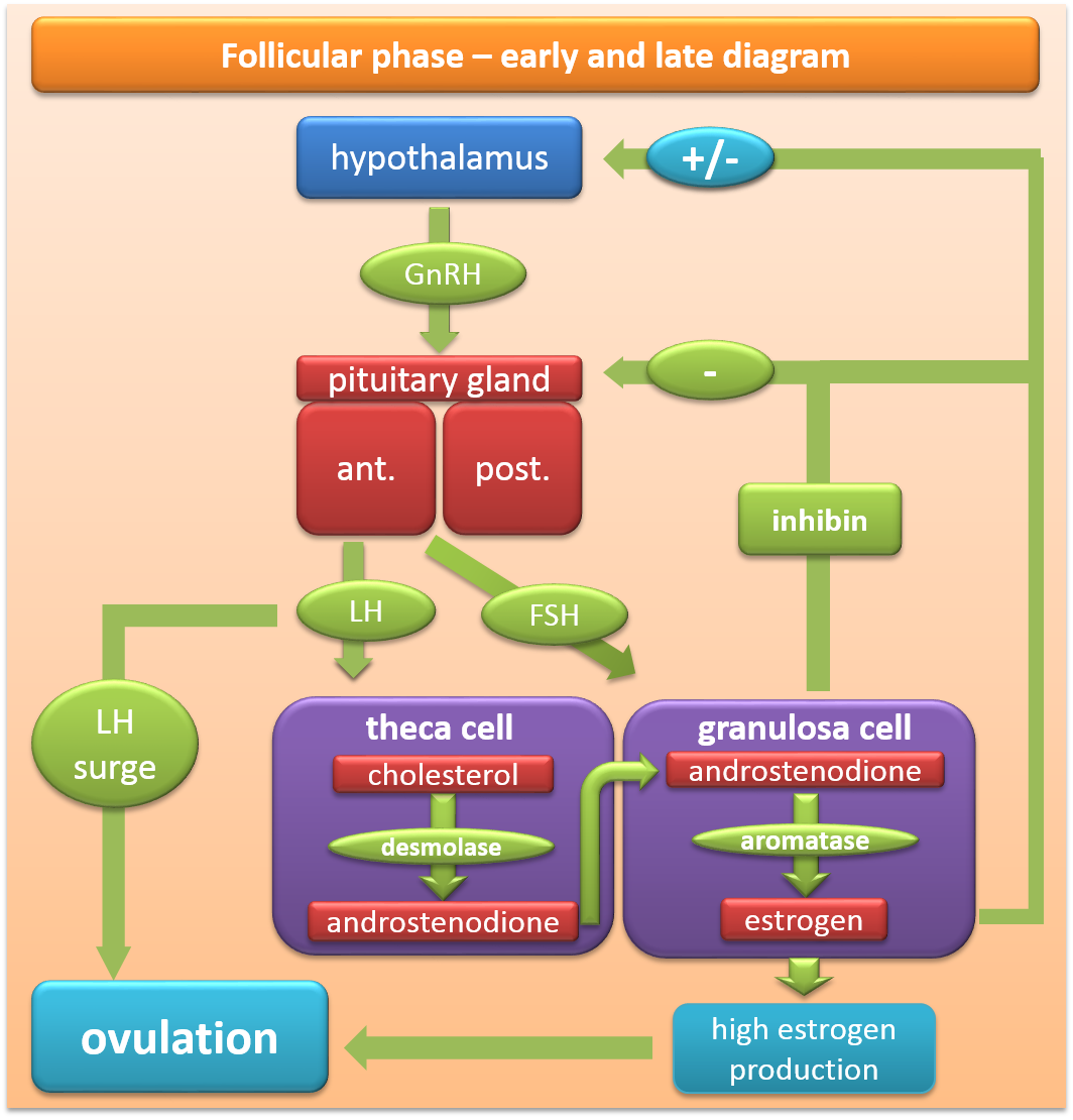 diagram of the physiology of the follicular phase of the menstrual cycle- highlighting changes with the LH surge.